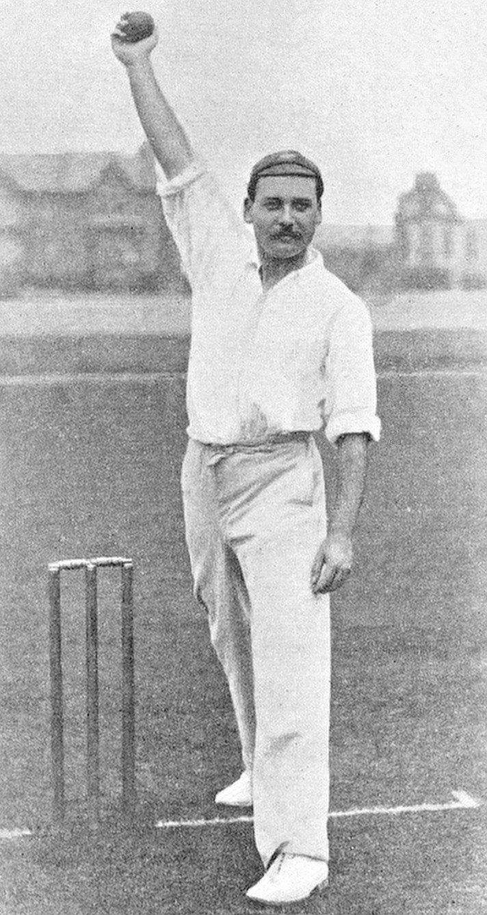 Scan of cricketer Fred Tate